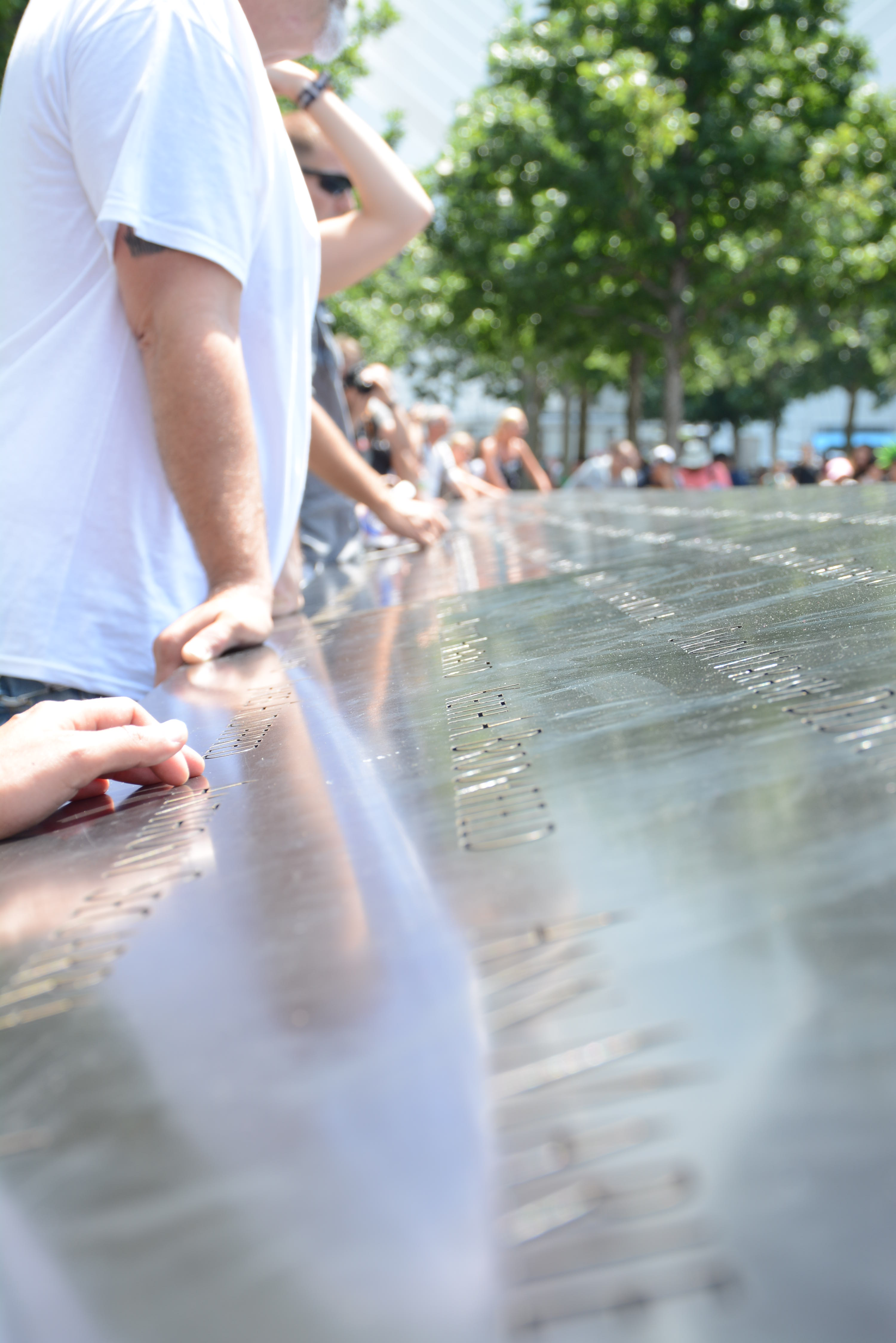 Name memorial of the September 11 attacks